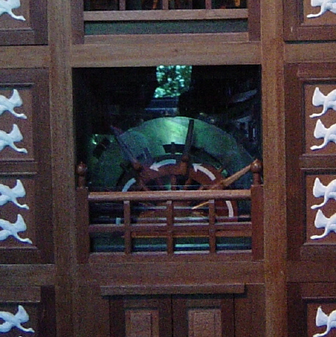 Seeing the water powered mechanism through the second floor window of Su Song's Water Clock. This picture is from a scaled model of Su Song's water-powered clock tower. The original clock tower was 35 feet tall. It was a 3 story tower with an armillary sphere on the roof, and a celestial globe on the third floor. This picture was taken in July 2004 from an exhibition at Chabot Space & Science Center in Oakland, California. The quality of the picture is not ideal because flash photography was not allowed.